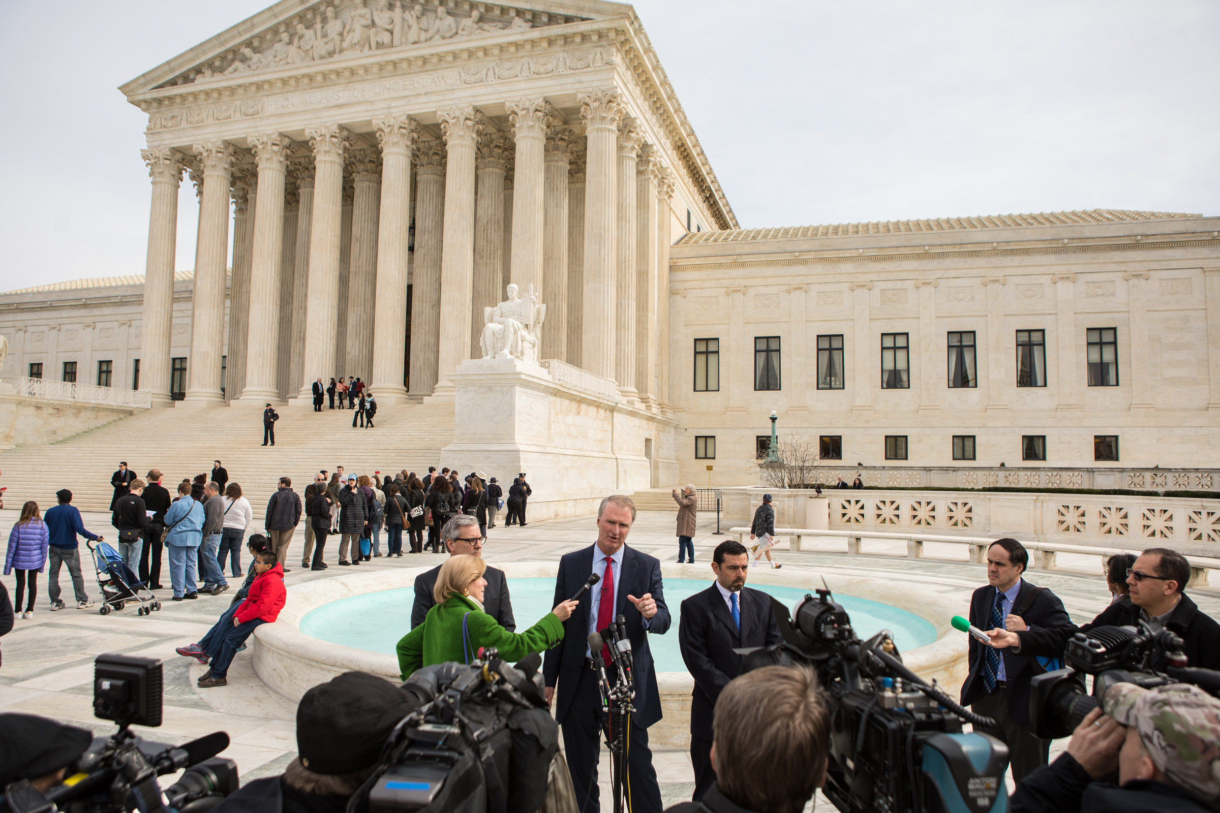 Attorney Bob Hilliard, representing the family of Mexican teenager Sergio Adrian Hernandez Guereca, speaks in front of the US Supreme Court.